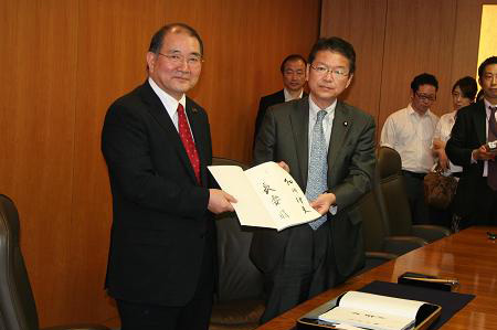 Ritsuo Hosokawa, Minister of Health, Labour and Welfare, took over the job from Akira Nagatsuma, former Minister of Health, Labour and Welfare, at the Central Government Building No.5 in Chiyoda Ward, Tōkyō Metropolis on September 21, 2010.